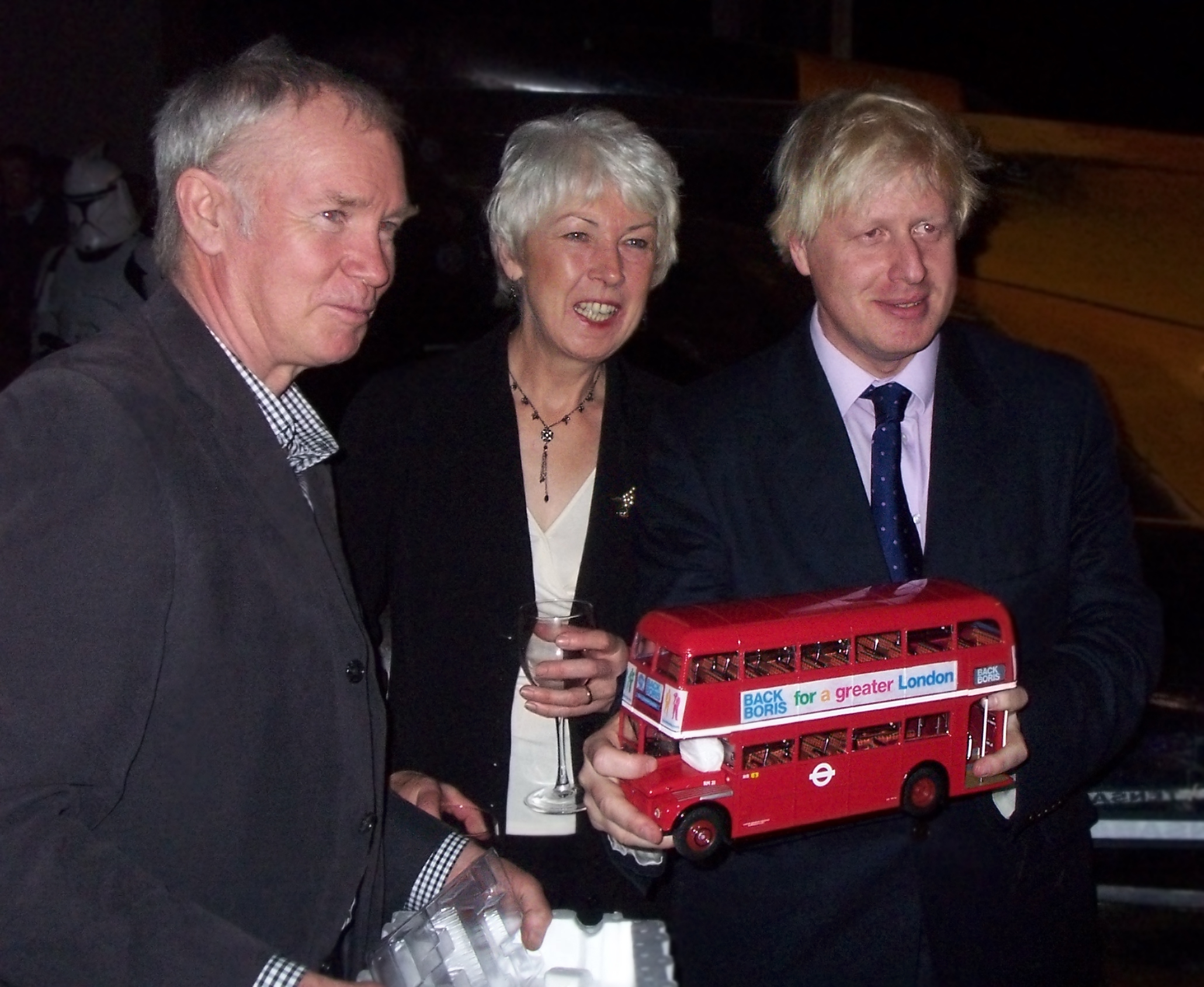 Boris Johnson holding a model red double decker bus, with two other people. A campaign slogan on the bus reads "Back Boris for a greater London"